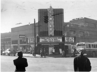 The historical Carver Theatre in Downtown Birmingham